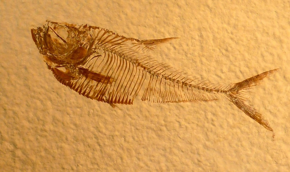 Diplomystus Dentatus fossil prepared by Fossil Shack from the Green River Formation